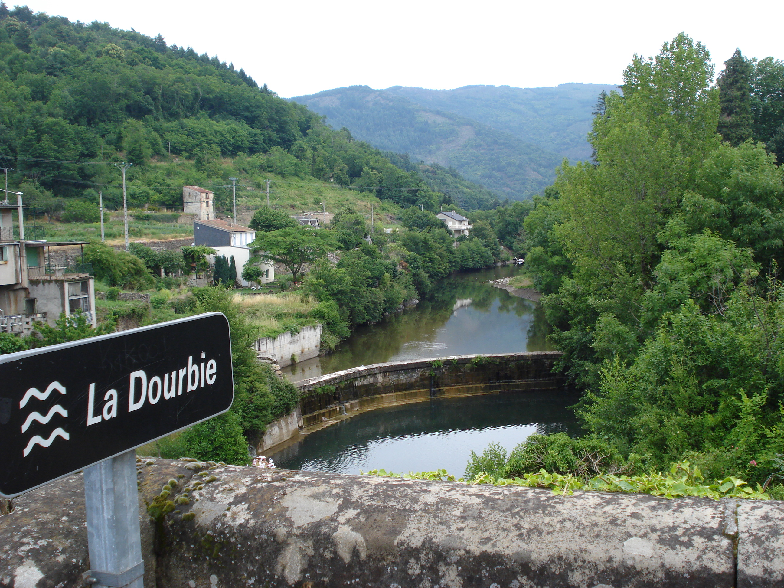 Dourbie river at Saint-Jean-du-Bruel.